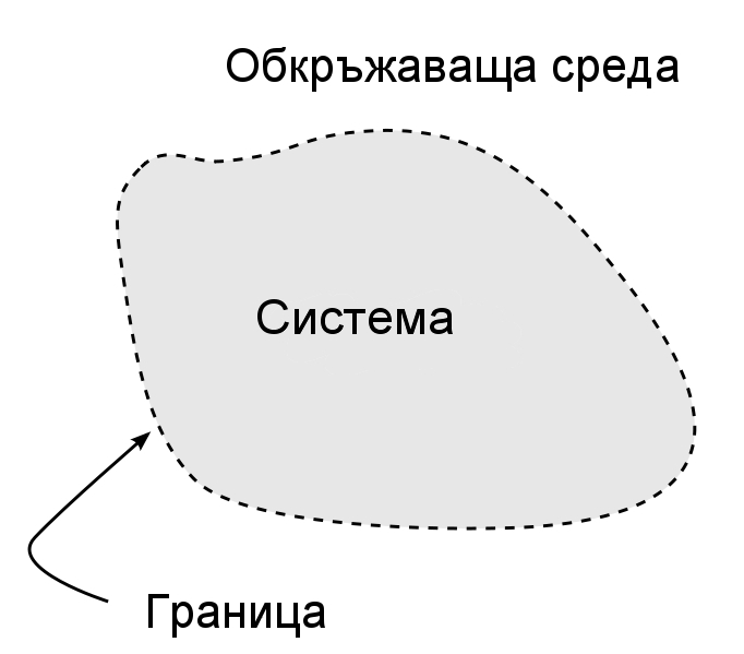 The boundary between a system and its surroundings